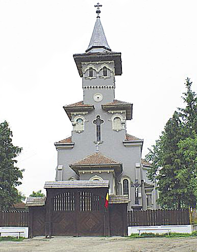 Greek Catholic Church in Bocşa, Sălaj. Inside the church is Simion Bărnuţiu tomb and Alimpiu Barboloviciu tomb